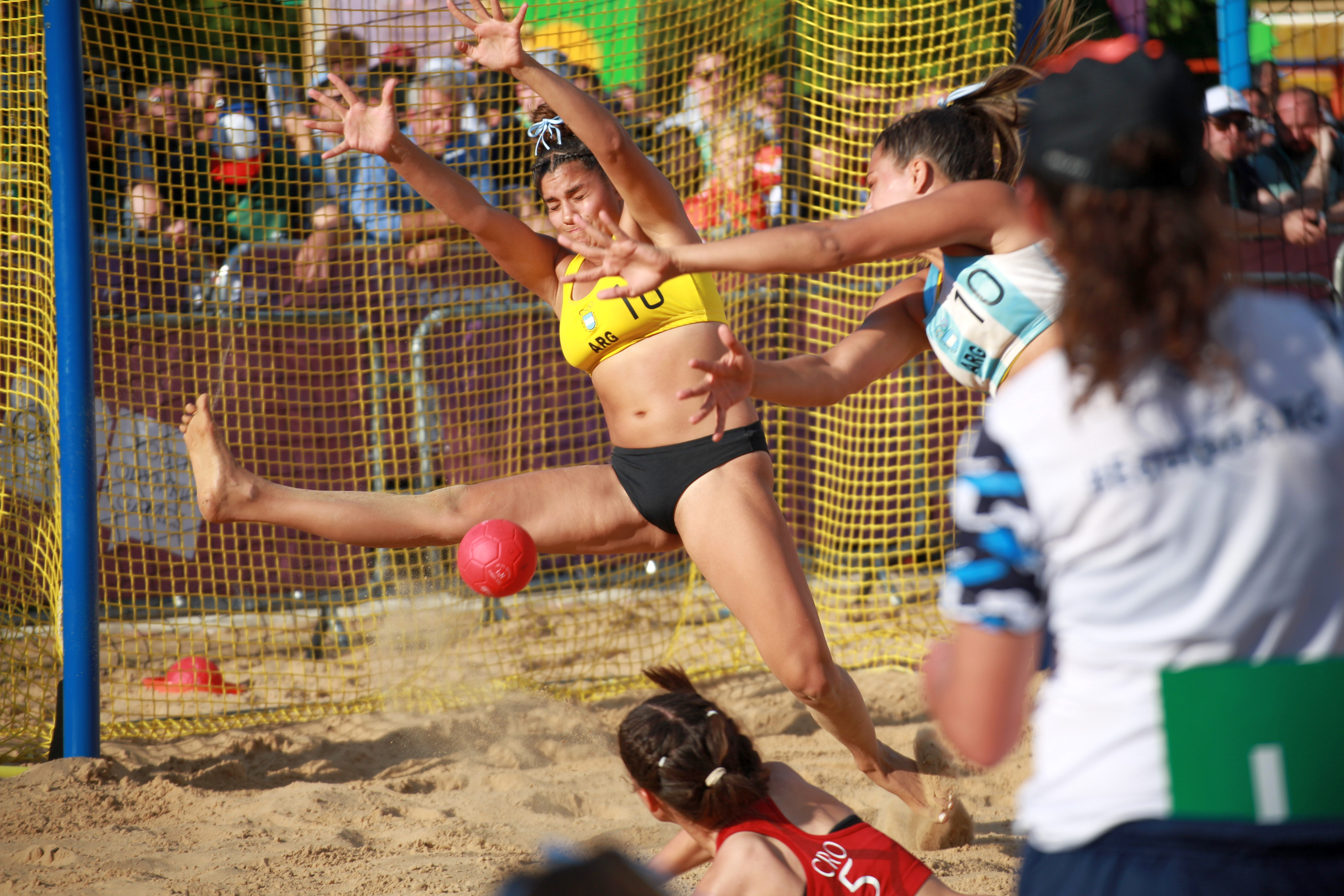 Beach handball at the 2018 Summer Youth Olympics in Buenos Aires at 13 October 2018 – Girls Gold Medal Match – Argentina-Croatia 2:0